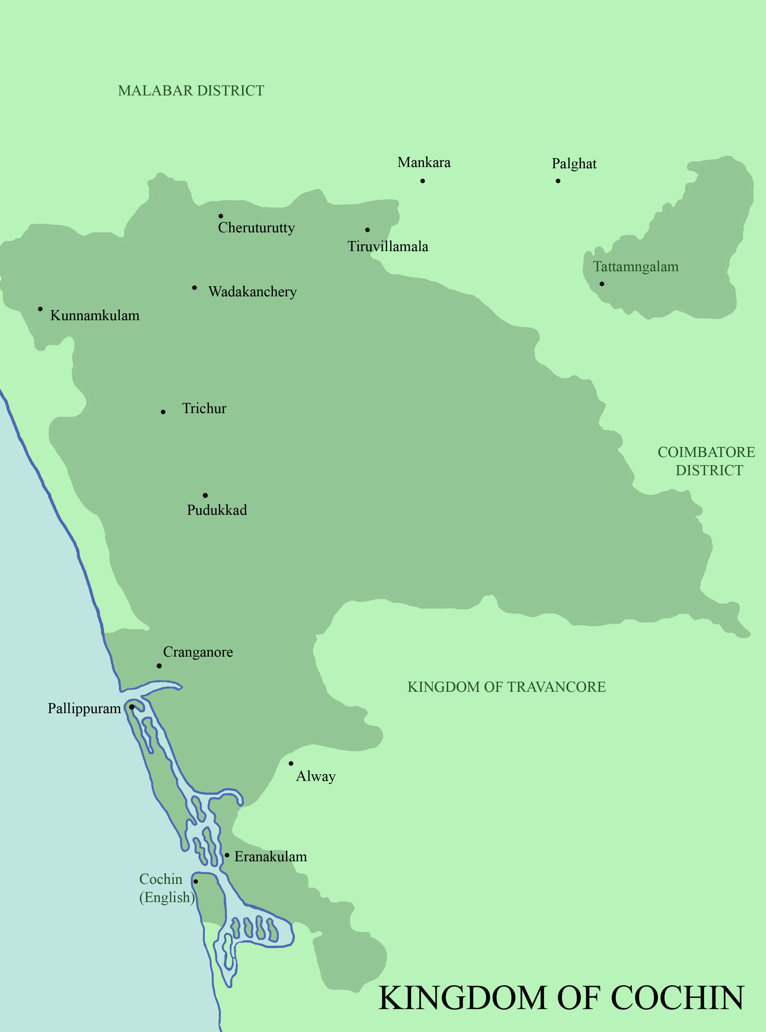 Map of the Kingdom of Cochin (showing main towns), Malabar, India